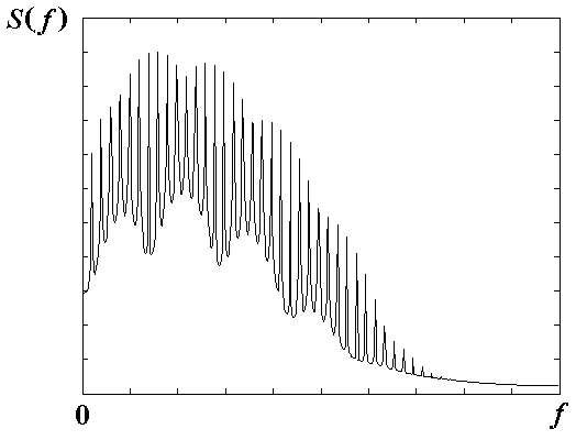 Ultrra Short Radio Pulse spectrum Unknown